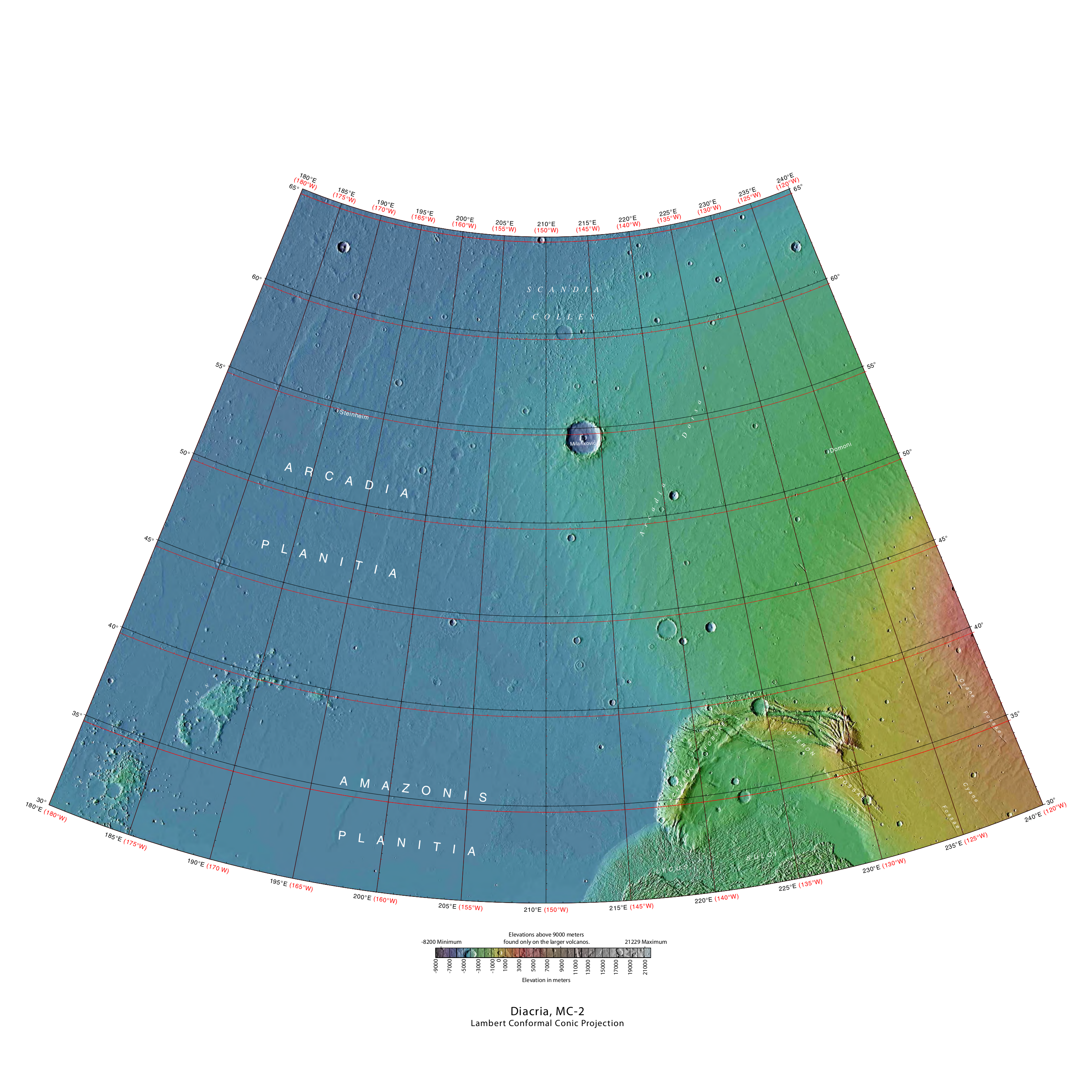 MOLA Topographic Map of Diacria Quadrangle (MC-2) on the planet Mars. NOTE: Converted the original PDF file to a PNG File (via GIMP v2.8.4 program) - and uploaded to Wikimedia Commons.